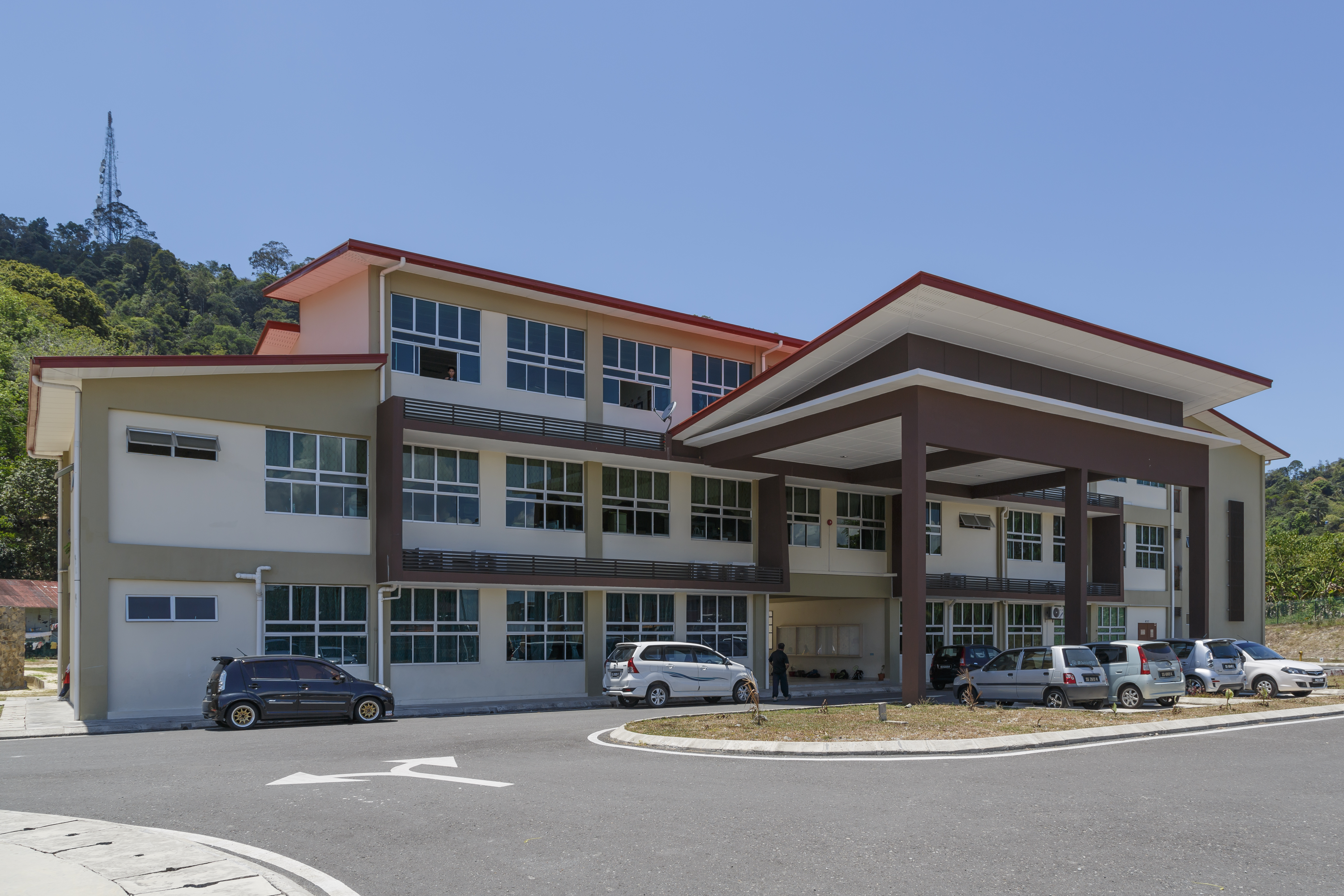 Sandakan, Sabah: Sekolah Kebangsaan Bandar Sandakan, a primary school